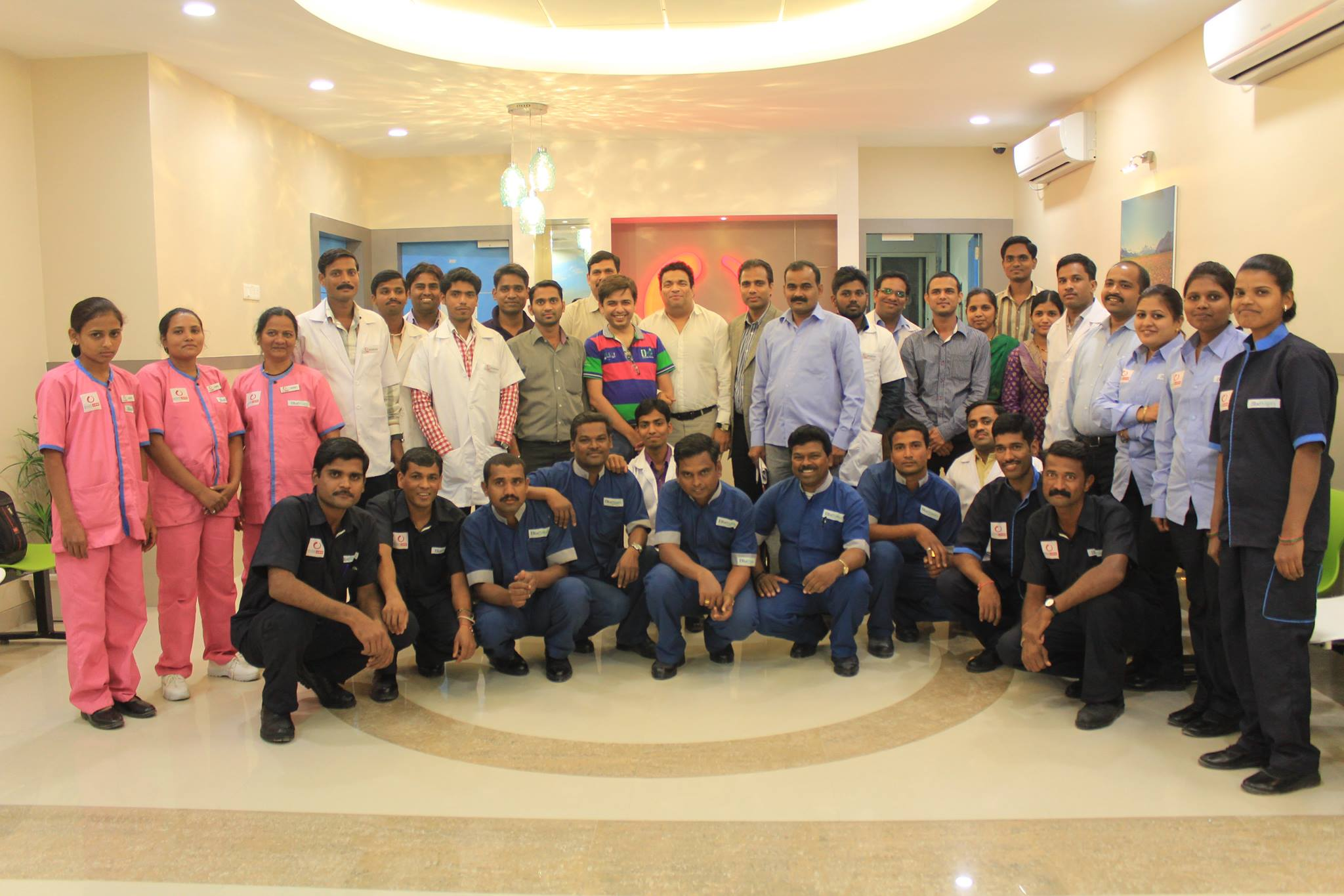 ensocarecenter